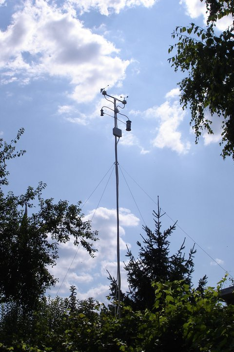 An automatic weather station measuring various climate elements.